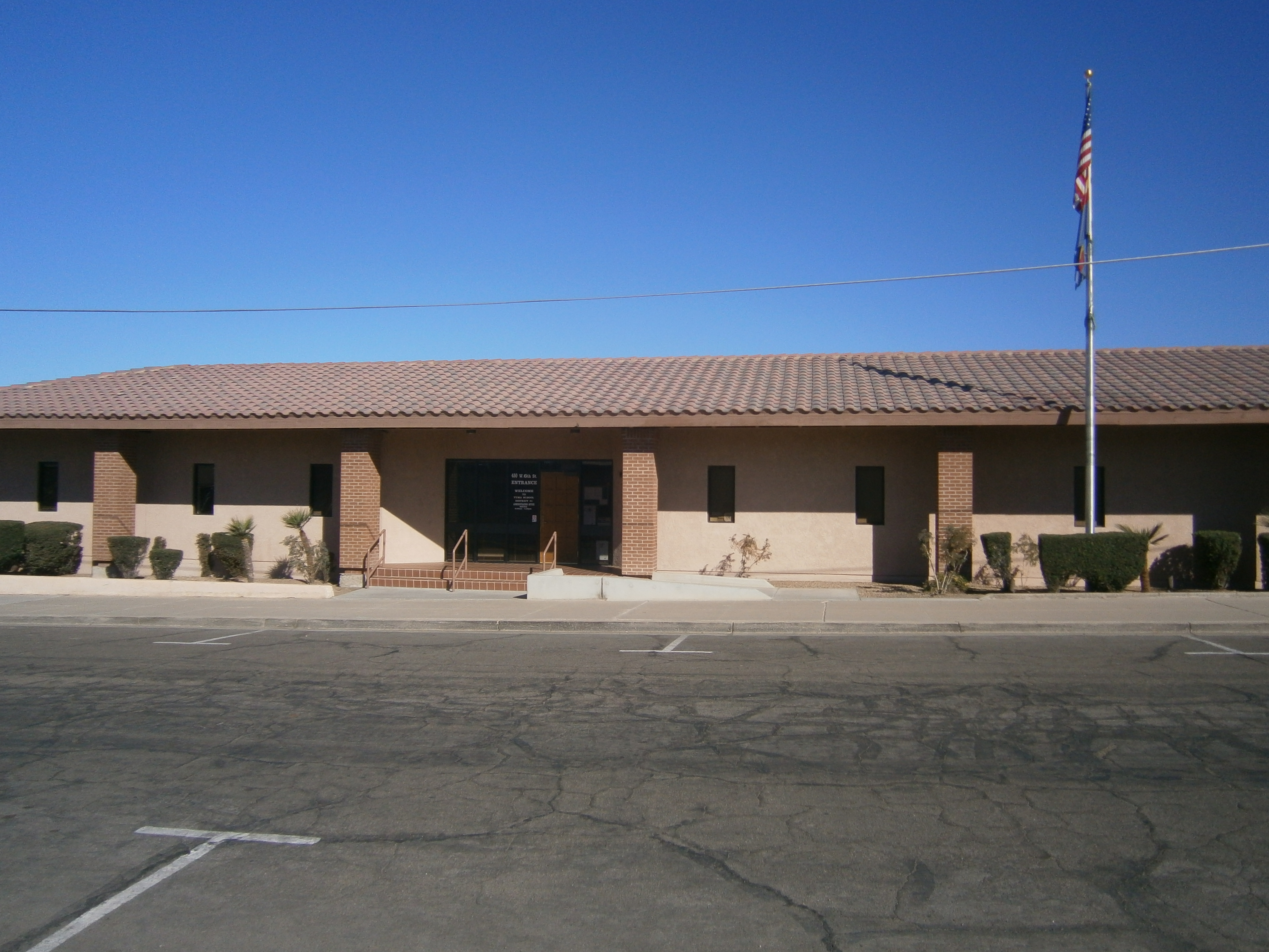 Headquarters of the Yuma Elementary School District